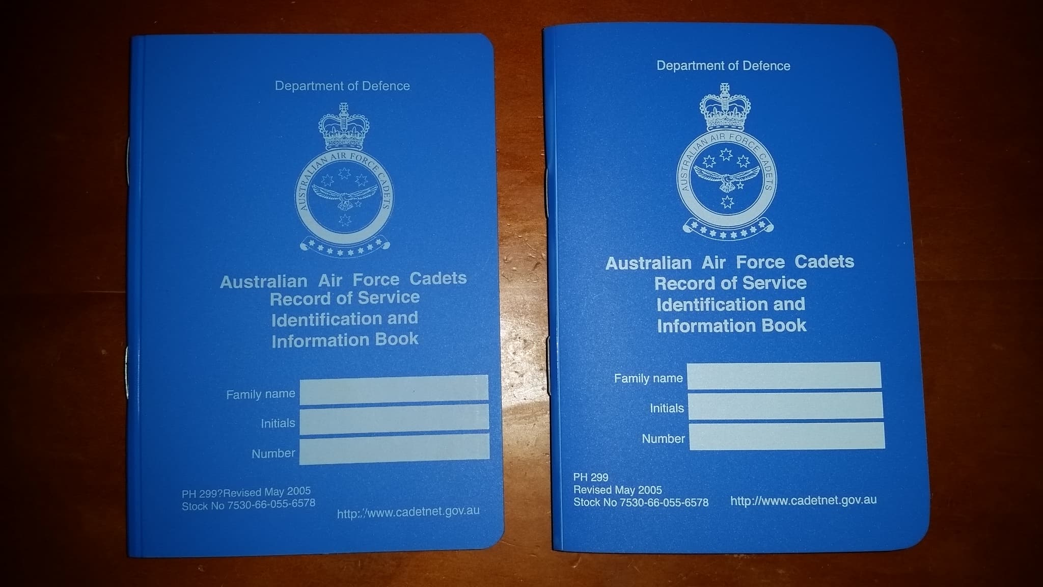 Australian Air Force Cadet Blue Book PH299